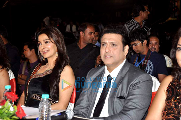 Govinda with Juhi Chawla at the Indian Princess finals 2014